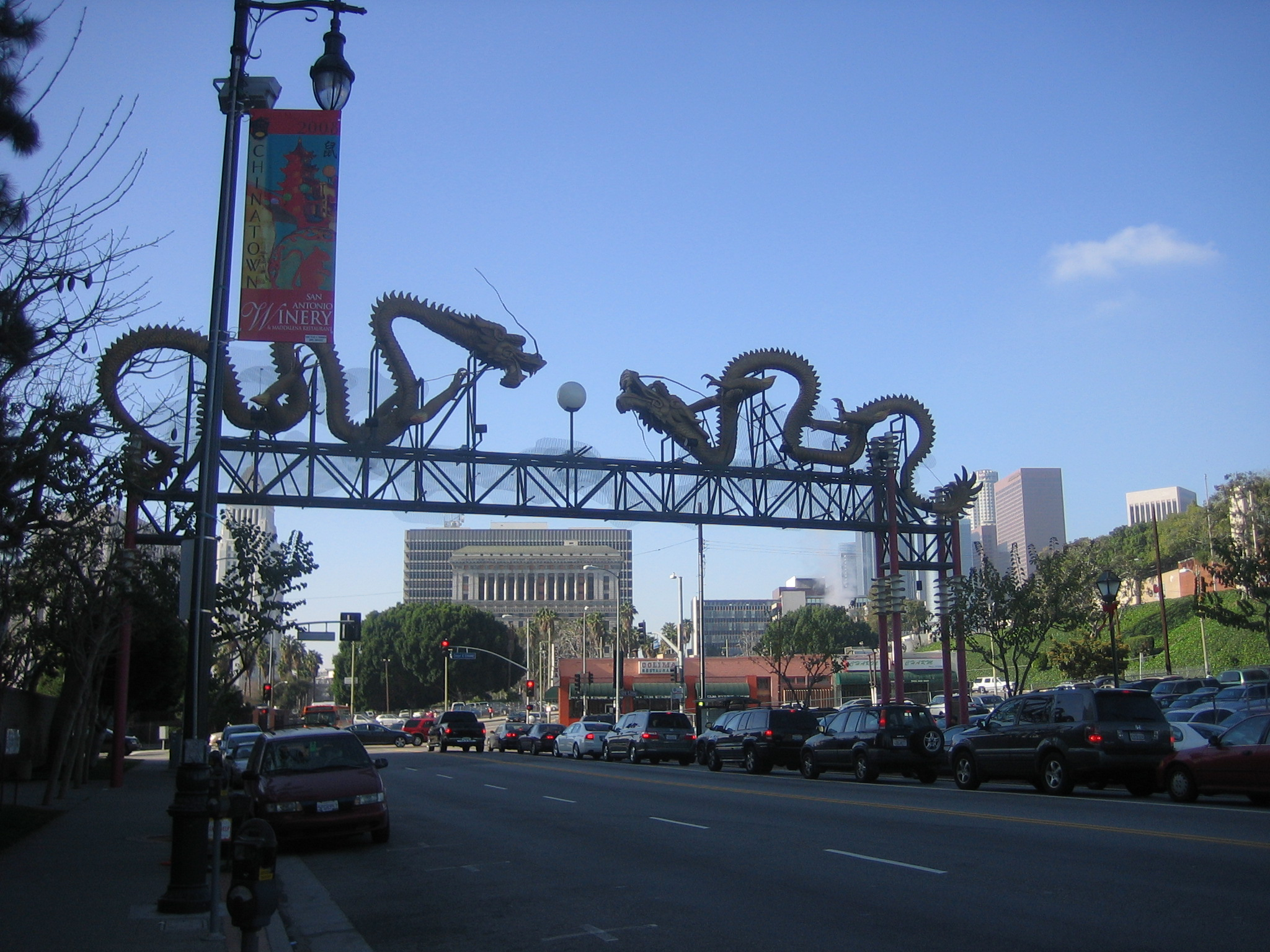 chinatown entrance LA